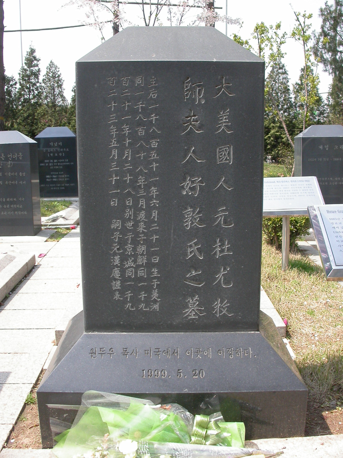 The Graves of the Underwood family, Yanghwajin Foreigners' Cemetery